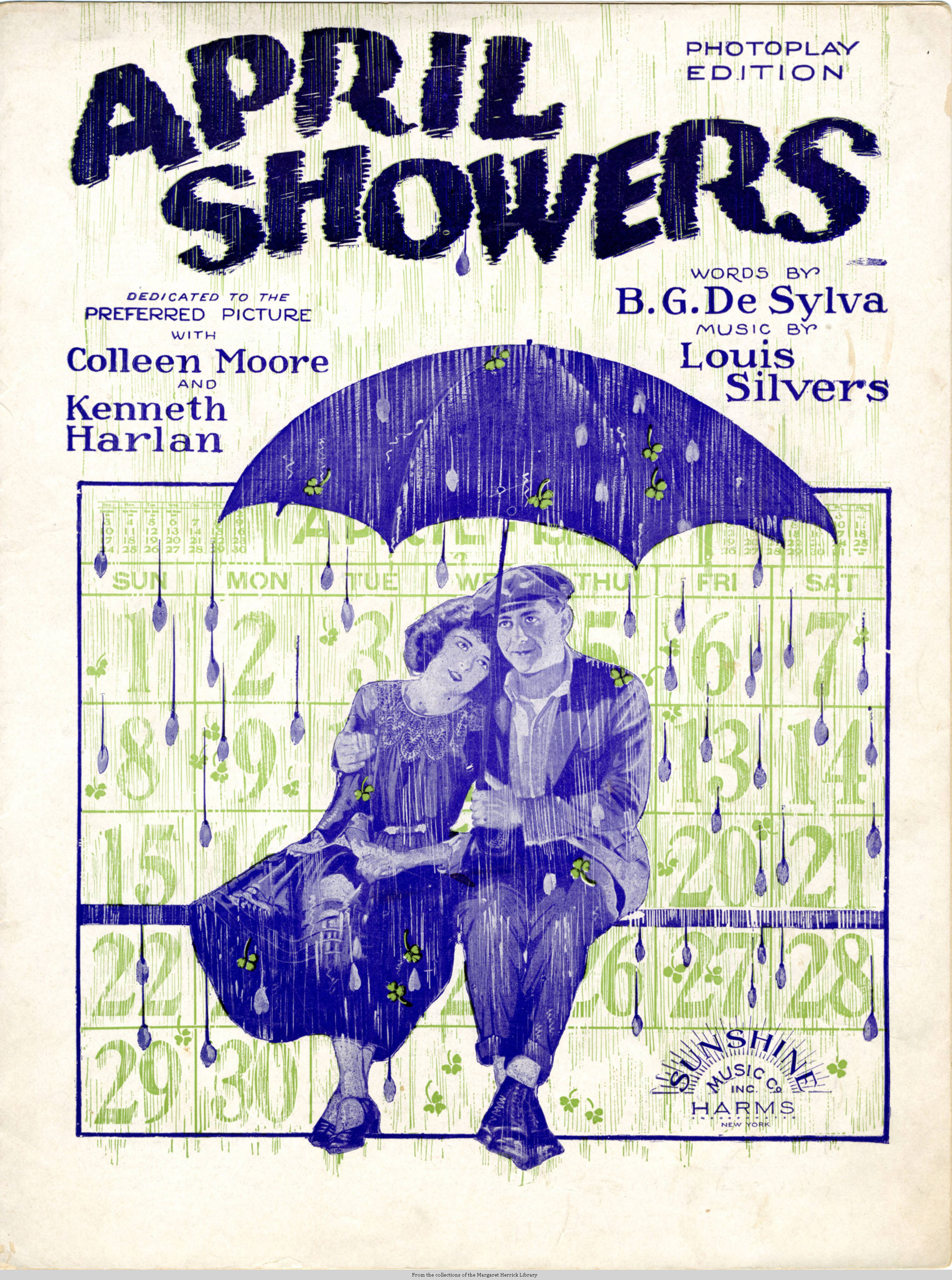 Sheet music cover: "April Showers" 1 vocal score (5 p.) ; 31 cm. Illustrated cover with images of Colleen Moore and Kenneth Harlan. April Showers (Motion picture : 1923)